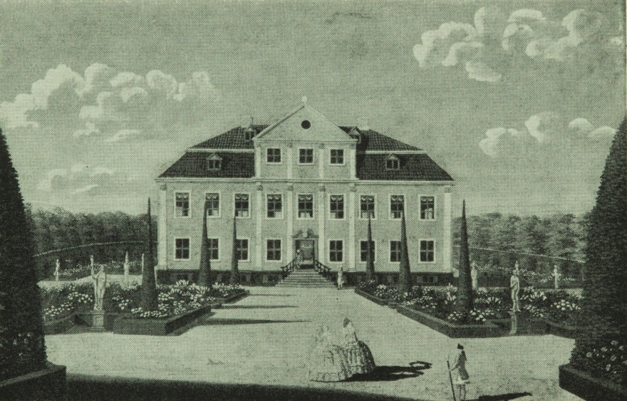 Engraving of Charlottenlund Slot based on painting by Johan Jacob Bruun.